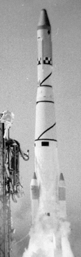 Launch of Thor SLV-2A Agena B rocket with Ferrer 4 satellite.